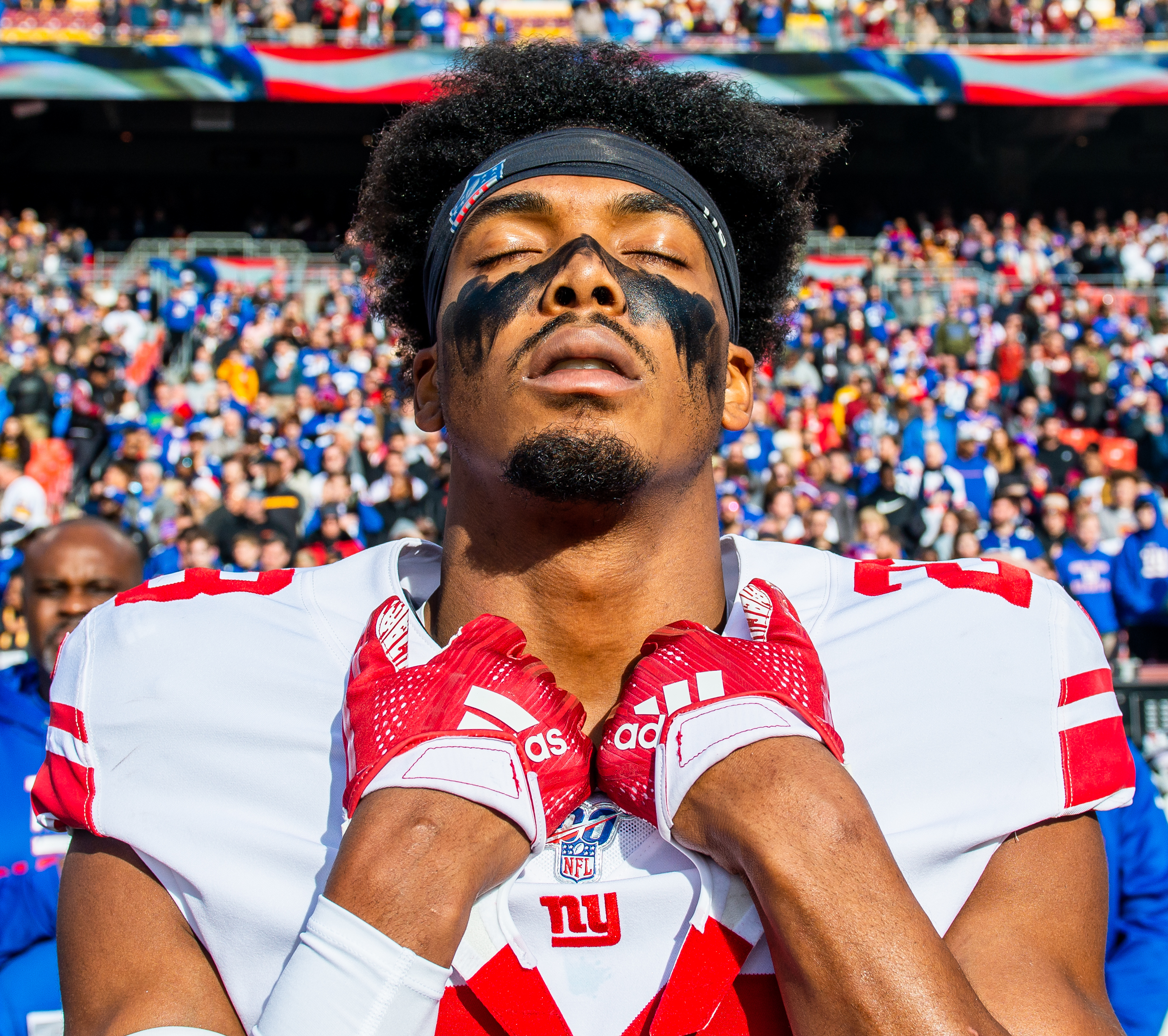 In 2019